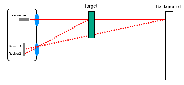 Sheme of background suppression of a photoelectric sensor